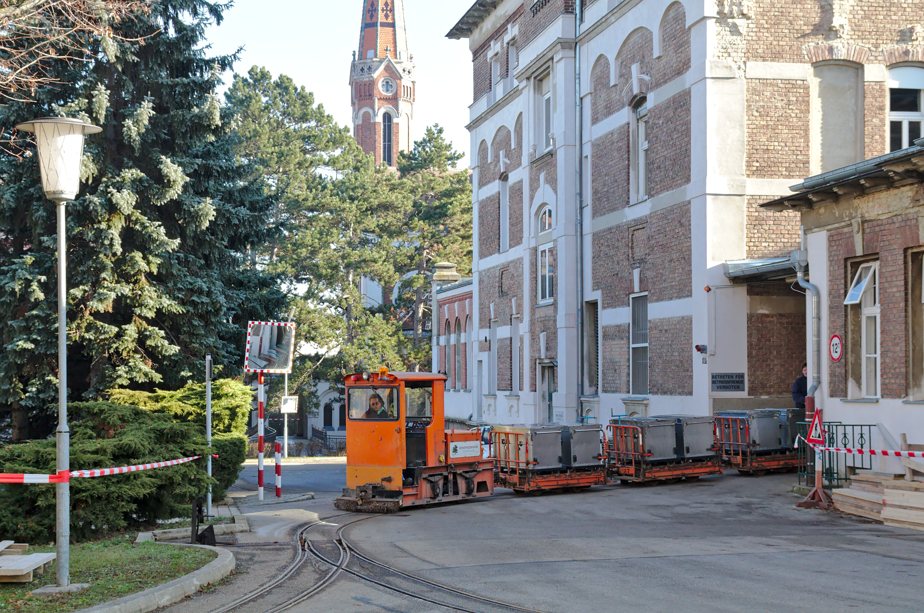 Supply railway of Lainz nursing home. A train leaves the loading hall on the last day of operation.